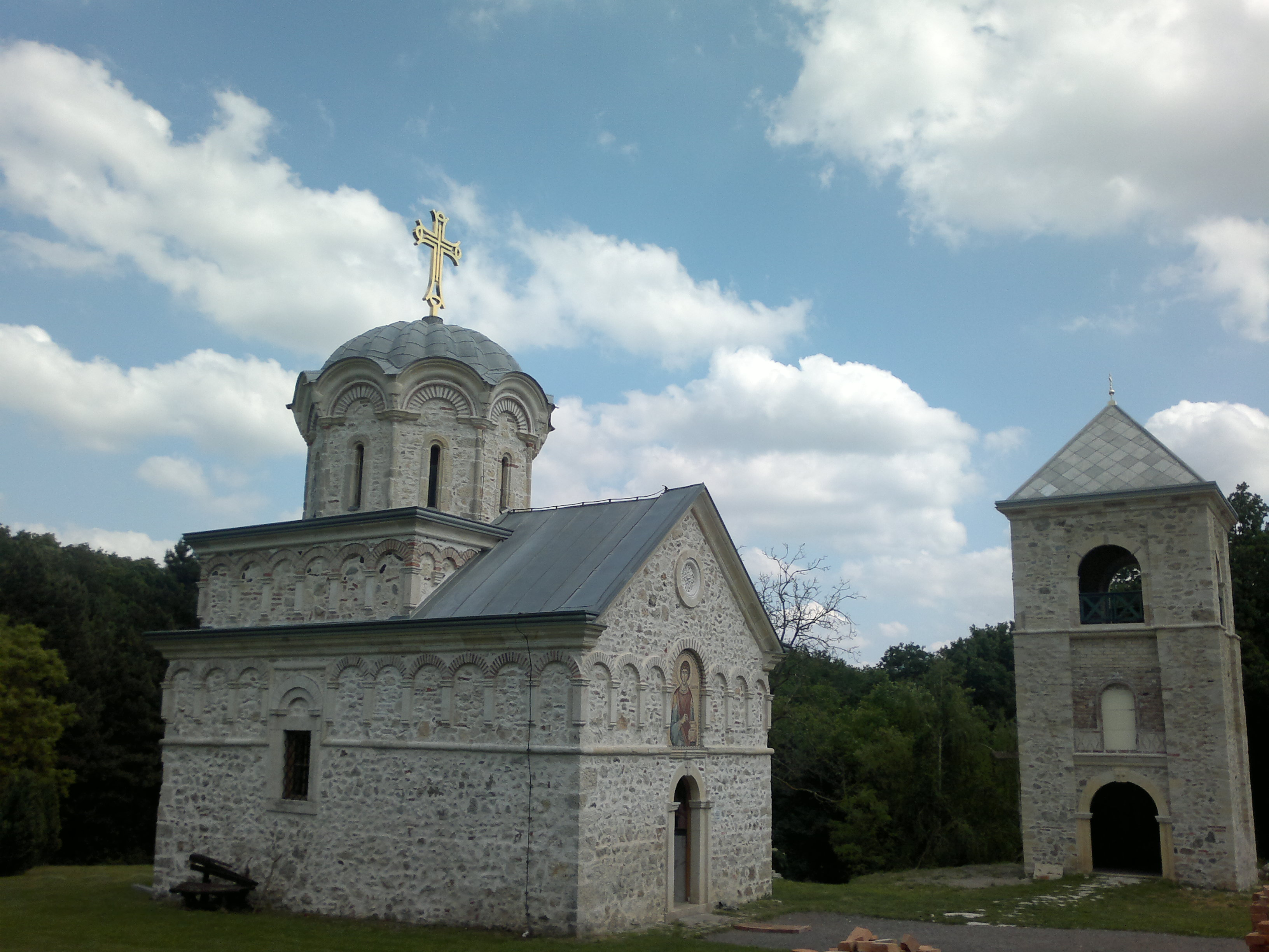 Old Hopovo monastery on Fruška Gora